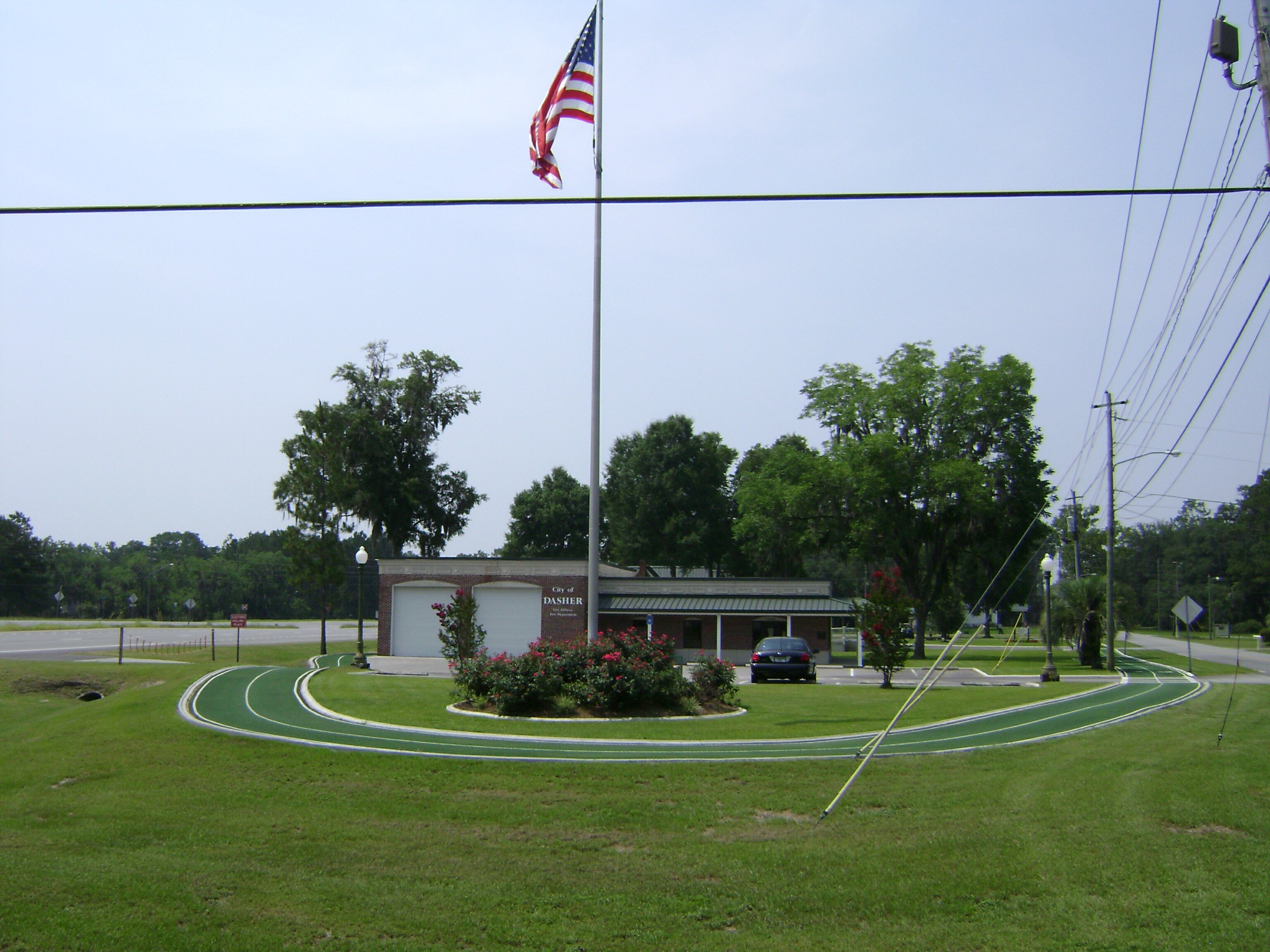 Dasher City Hall and Fire Department at 3686 US Hwy 41 S. Dasher, Lowndes County, Georgia